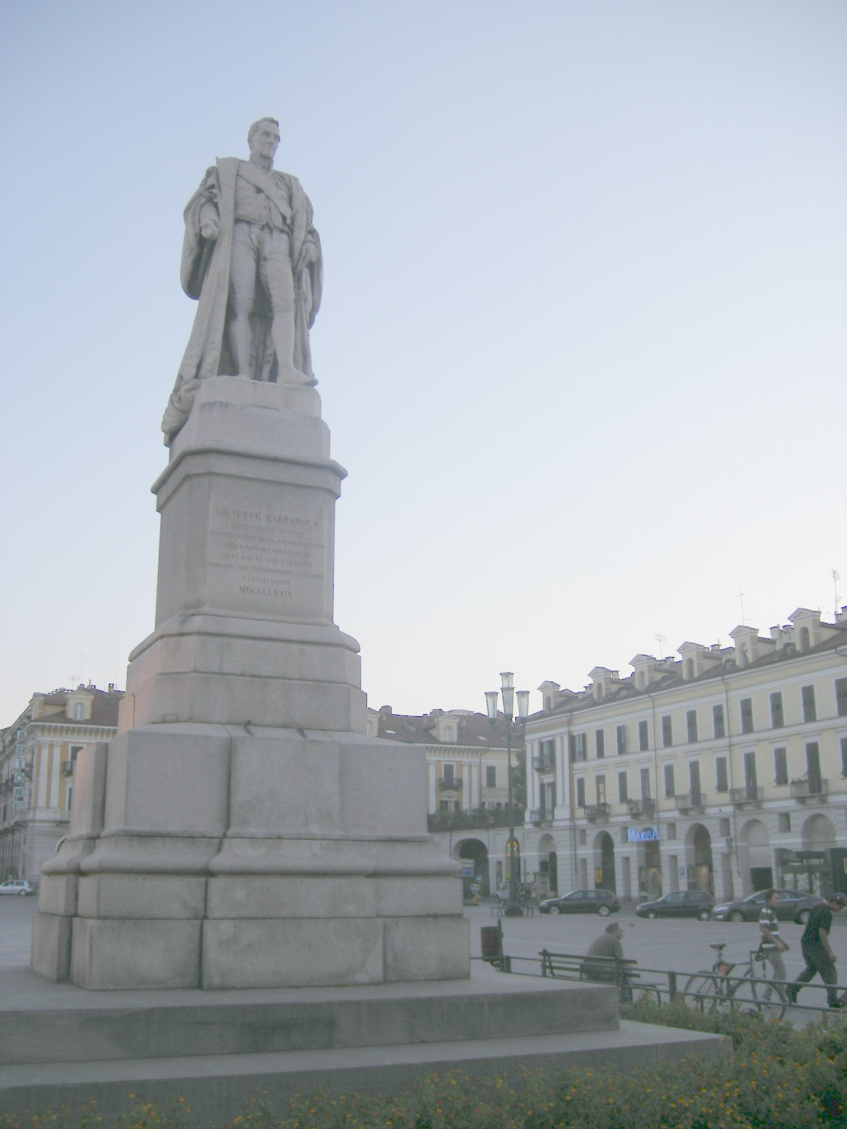 Cuneo - Piazza Galimberti - Giuseppe Dini (1820-1890), monument to Giuseppe Barbaroux.